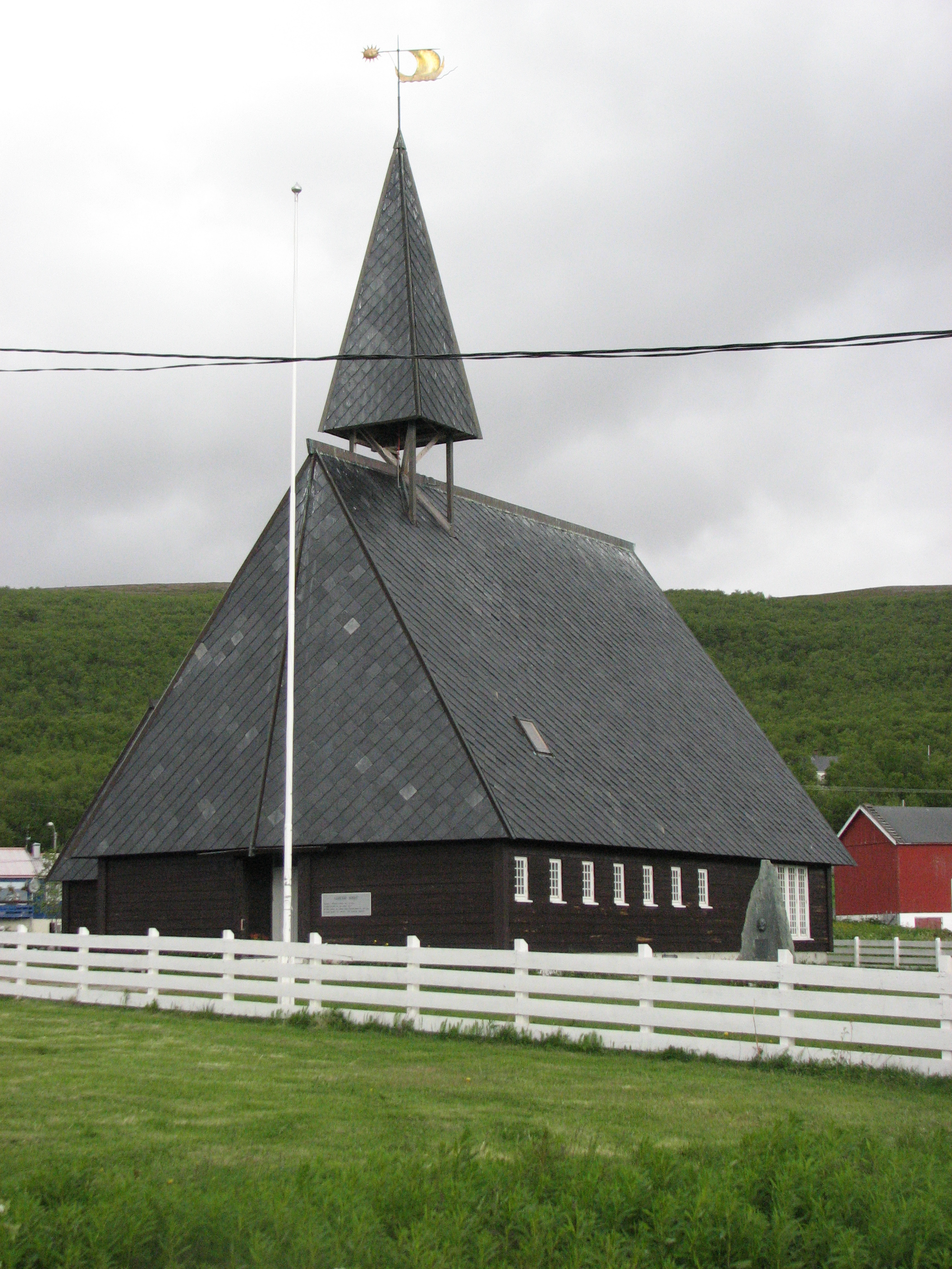 Lebesby church, Lebesby municipality, Norway